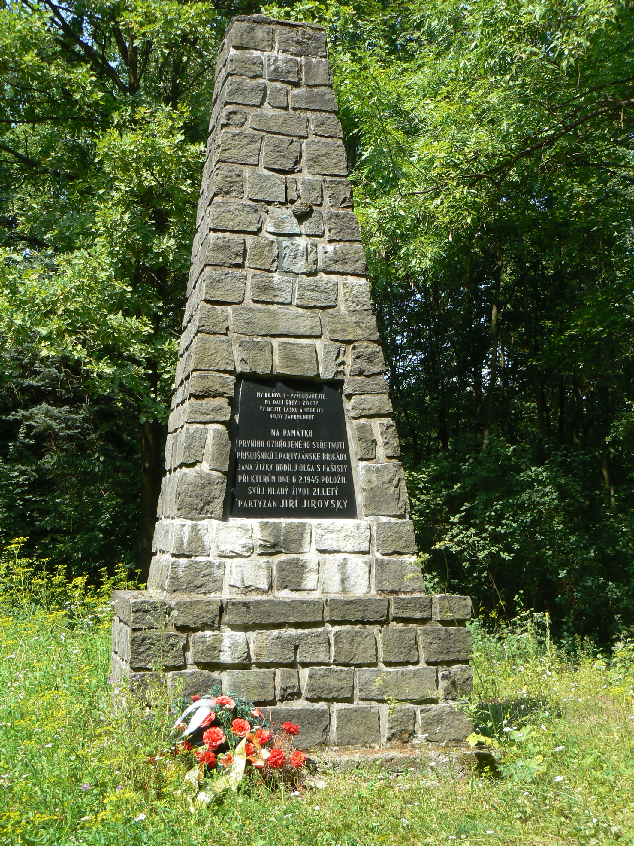 Memorial of partisans in Ždánický les, Czech Republic.